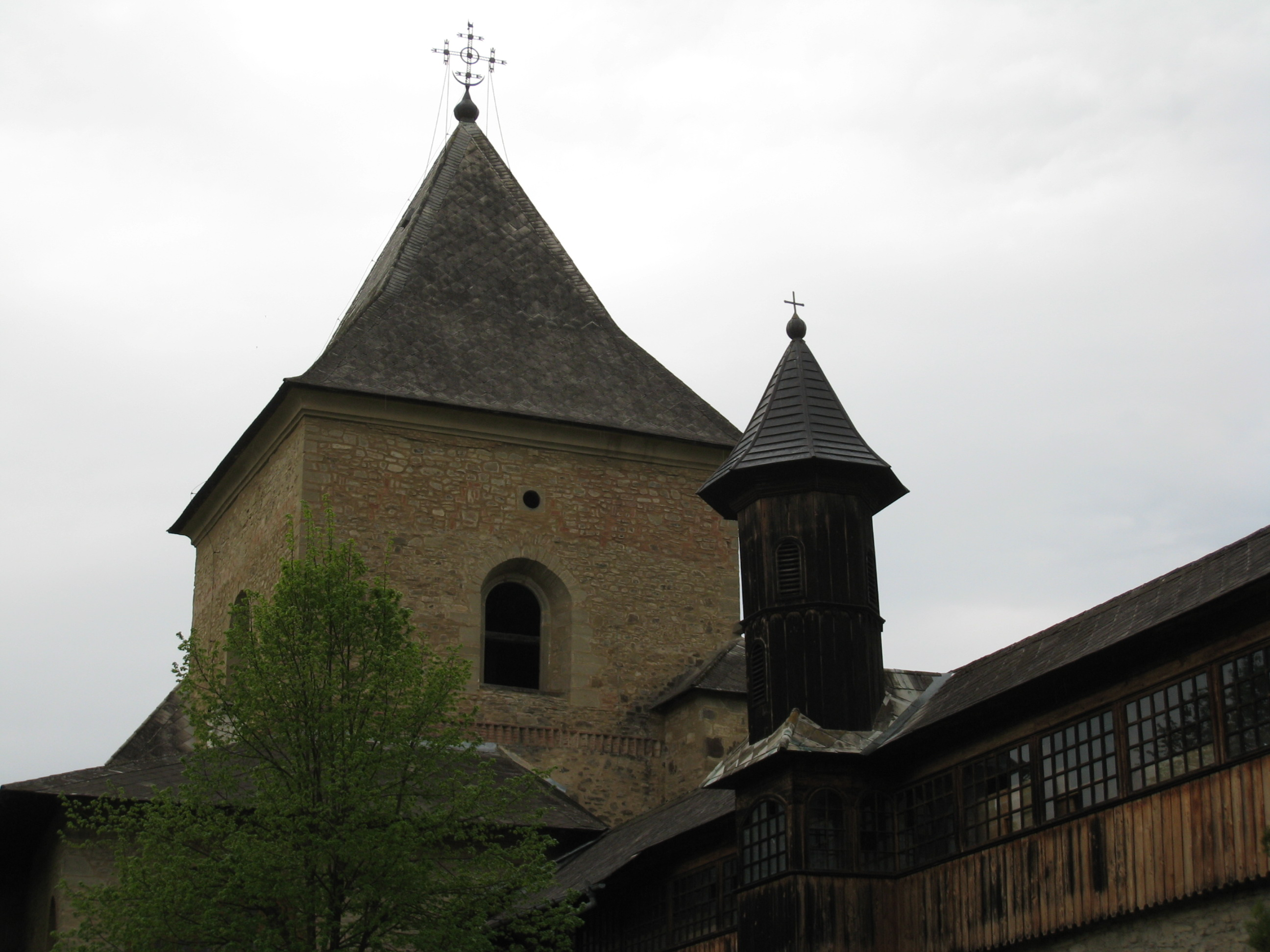 Sucevita Monastery, Bucovina